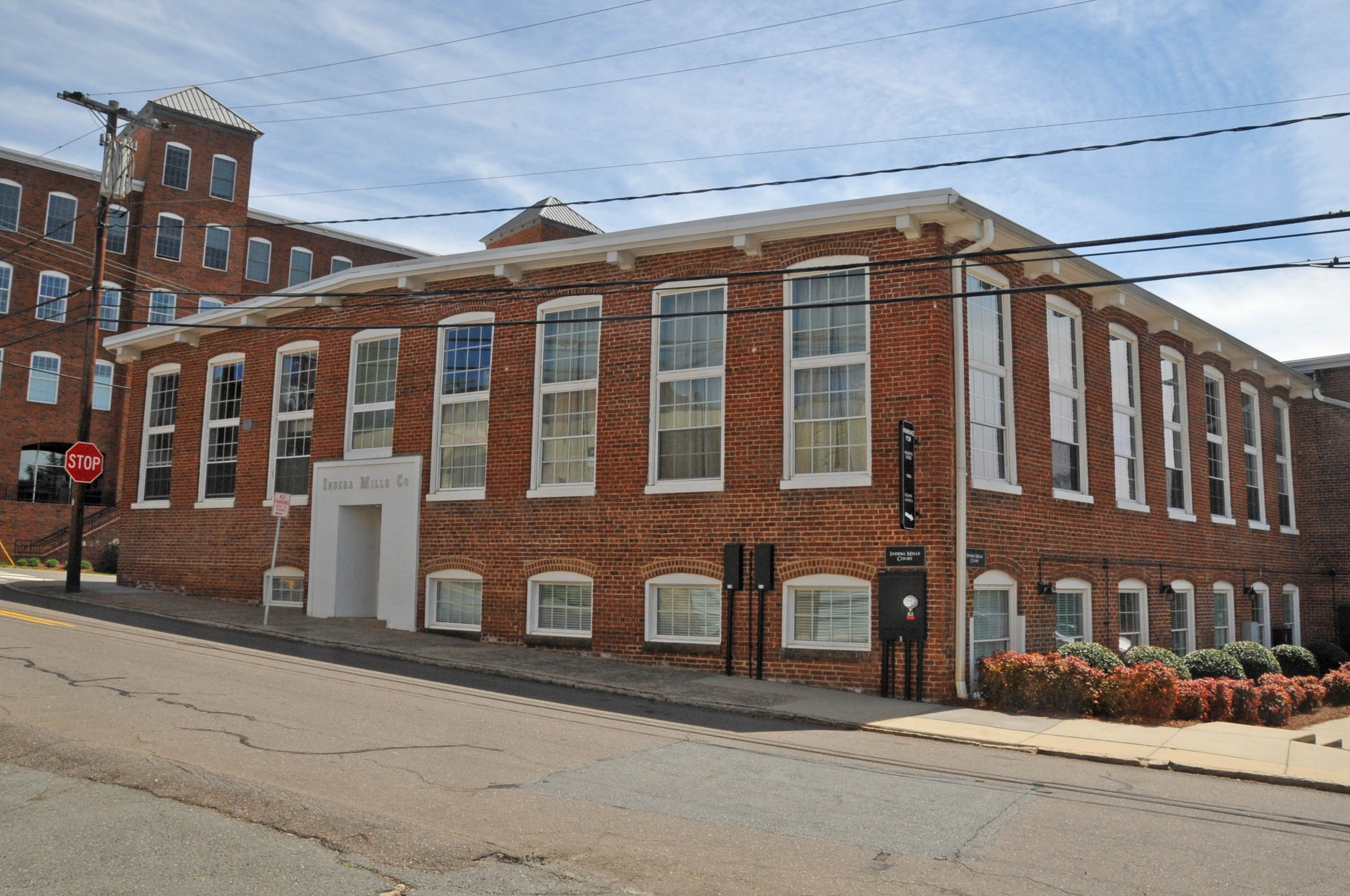 THE PREMIER MANUFACTURER OF THERMALWEAR IN NORTH AMERICA. FOR NEARLY 100 YEARS; BUILDING IS NOW BEEN CONVERTED TO APARTMENTS. COMPANY IS STILL IN BUSINESS BUT IN YADKINVILLE, NC AND IN MEXICO